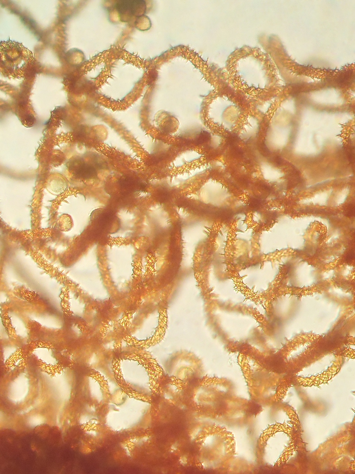 Threads of slime mold Metatrichia vesparium capillitium.